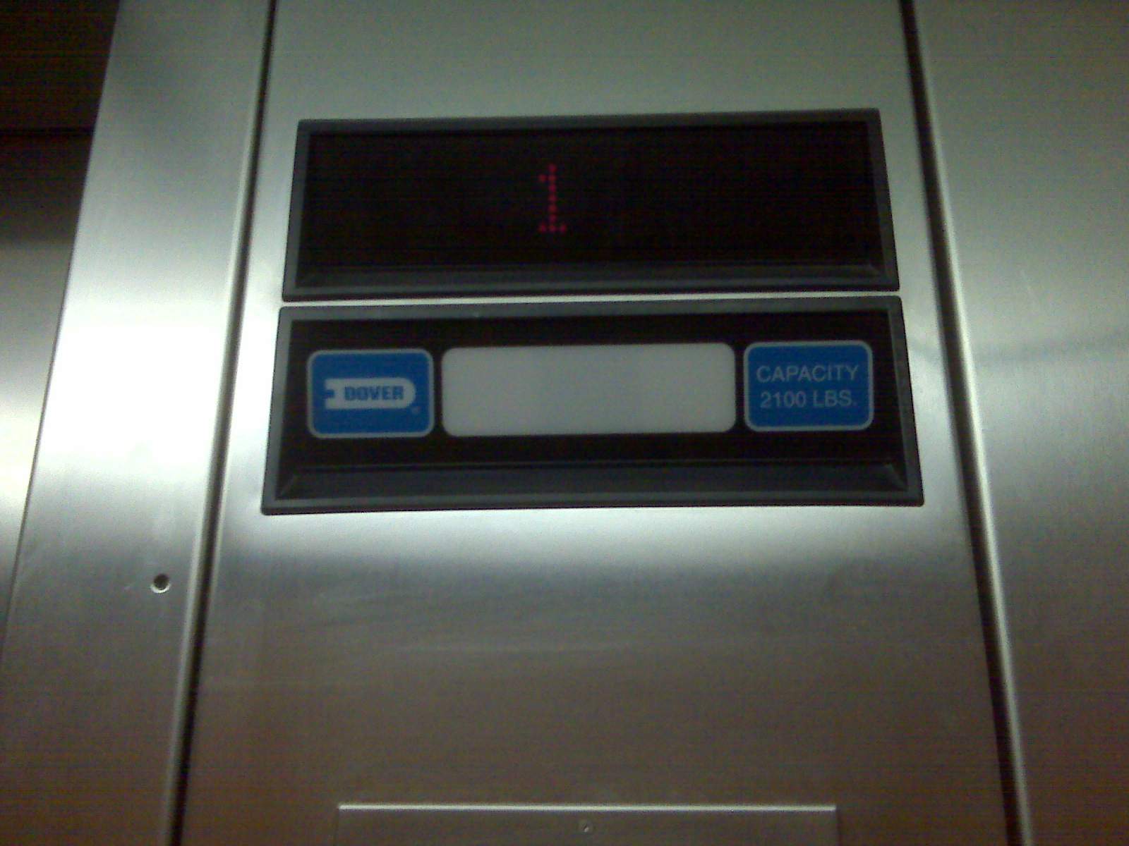 Floor indicator in a Dover Elevator in the C building at Port Charlotte High School